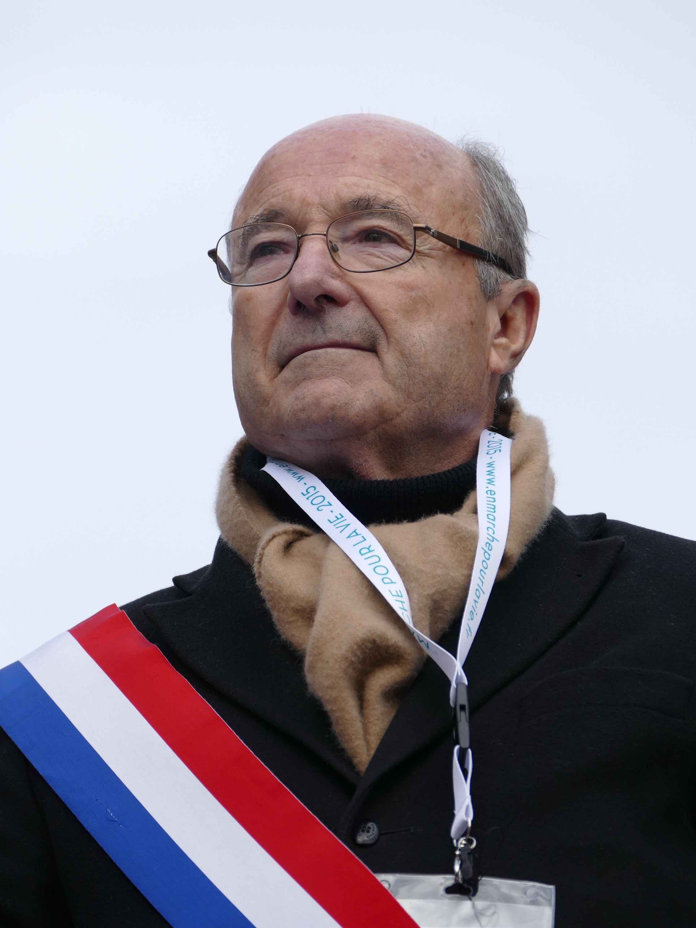 March for Life 2015 in Paris (Île-de-France, France).